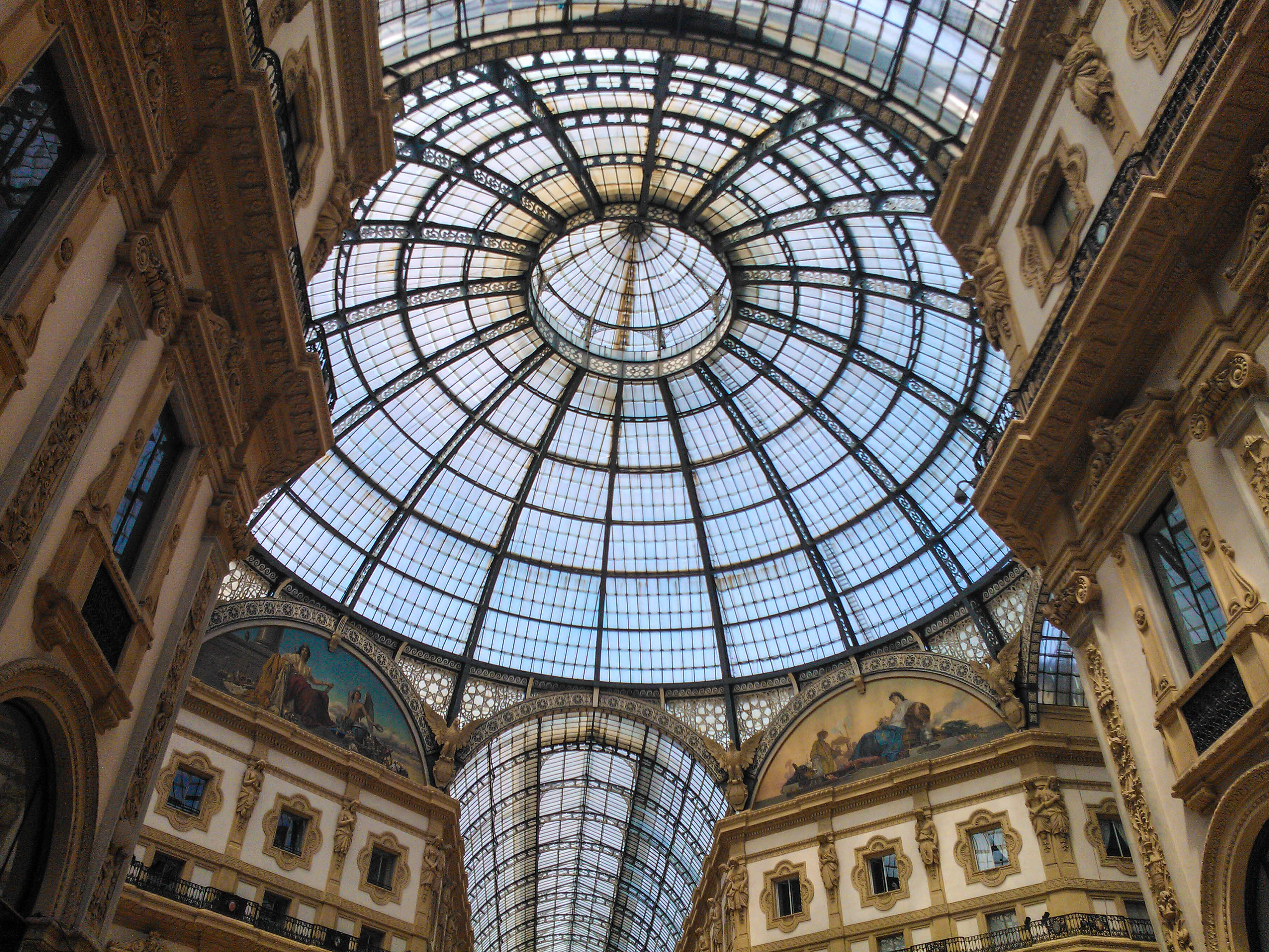 A view of the shops and coffeehouses in the Galleria Vittorio Emanuele II, Milan.